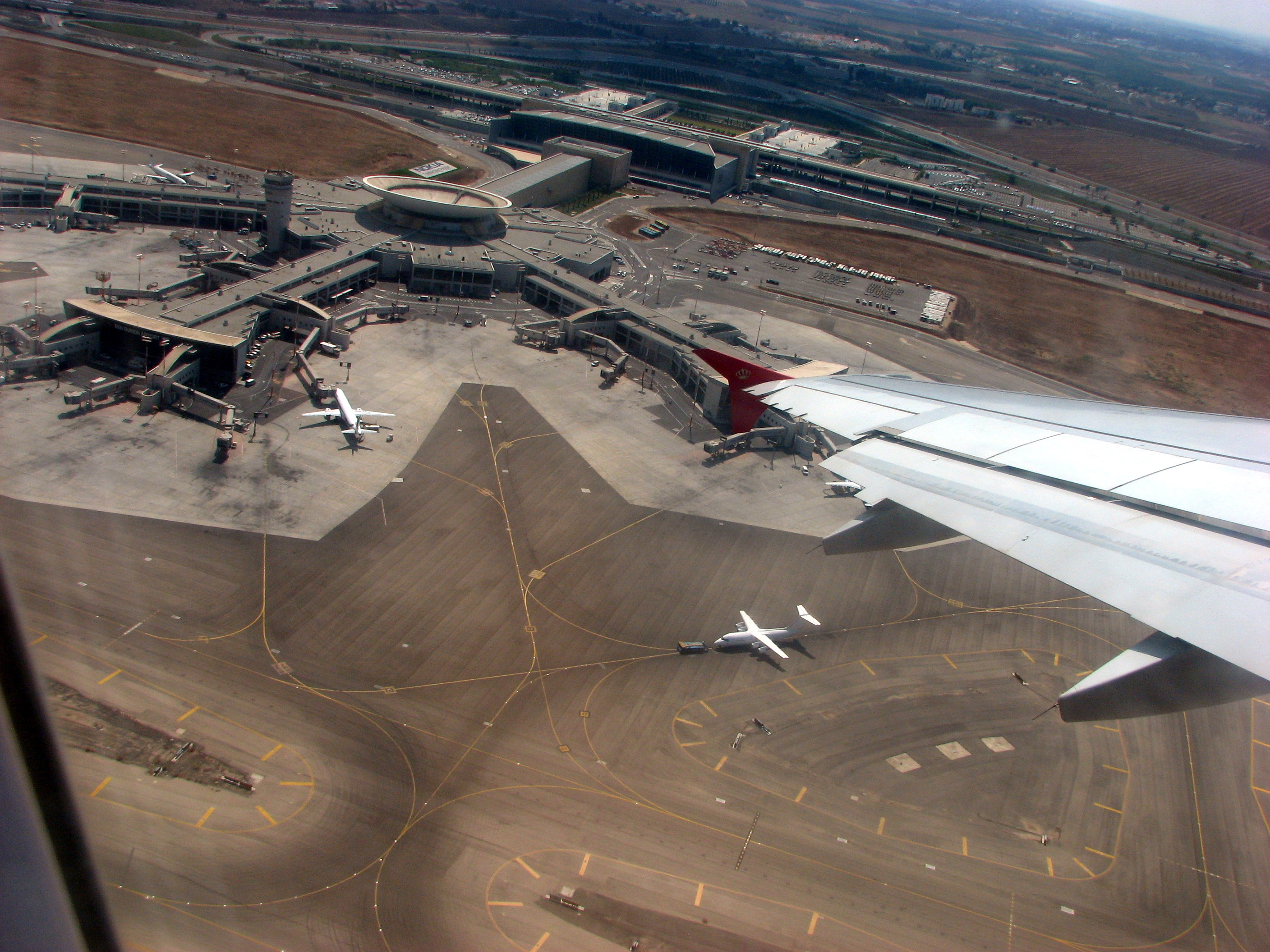 Picture of Ben Gurion International Airport terminal 3, taken from an ascending plane.